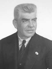 (Mehmet) Fuat (Ziya) Çiyiltepe